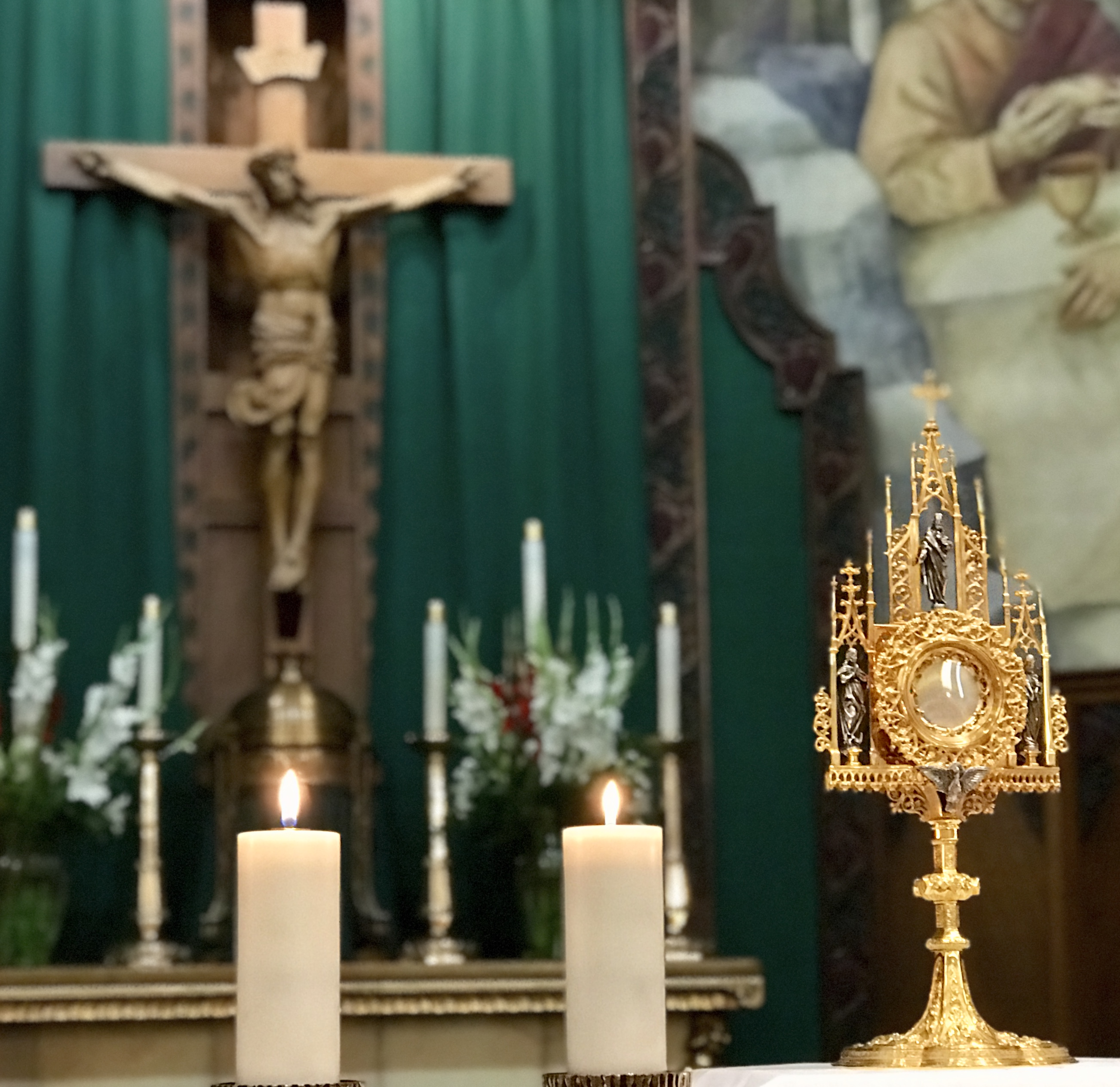 Transubstantiation - The Real Presence of Jesus in the Eucharistic Adoration at St Thomas Aquinas Cathedral in Reno NV USA